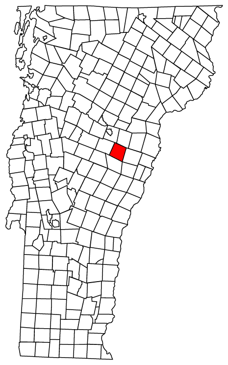 Map of Vermont towns with Washington highlighted